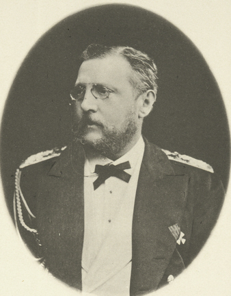 Cosntantine Nikolaievich of Russia